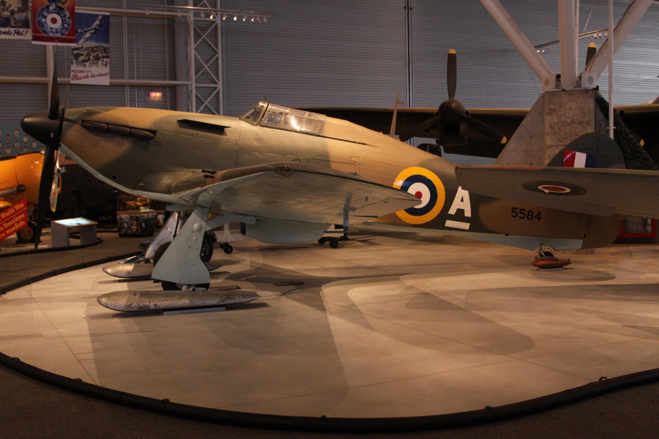 At Rockcliffe Canada Aviation Museum